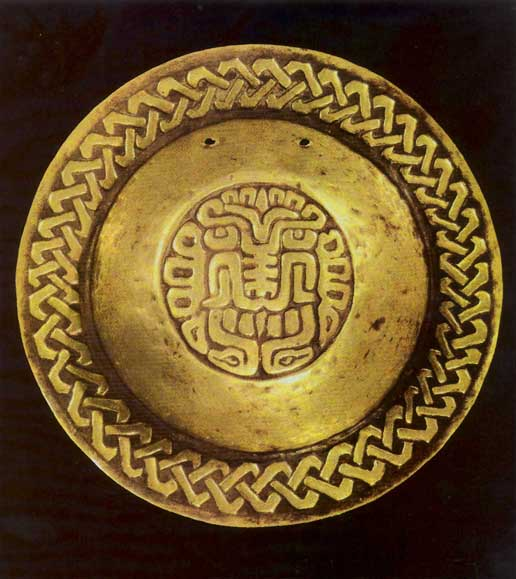 A gold plate from the Chavin Culture.